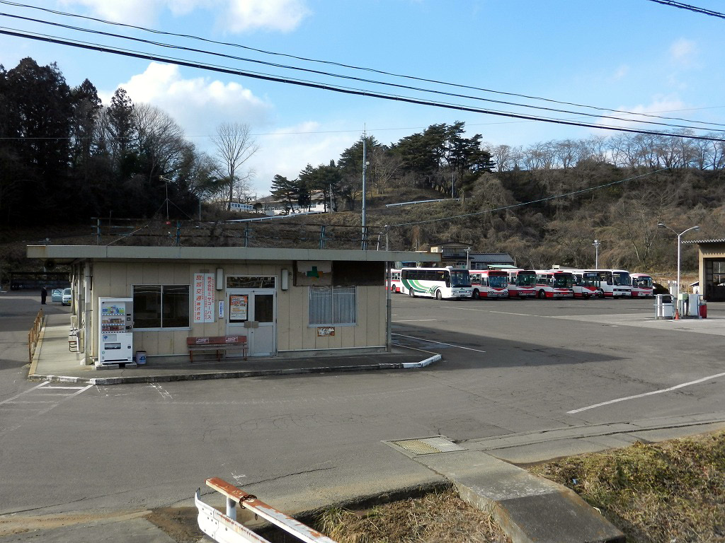 Miyakoh Bus Murata Depot